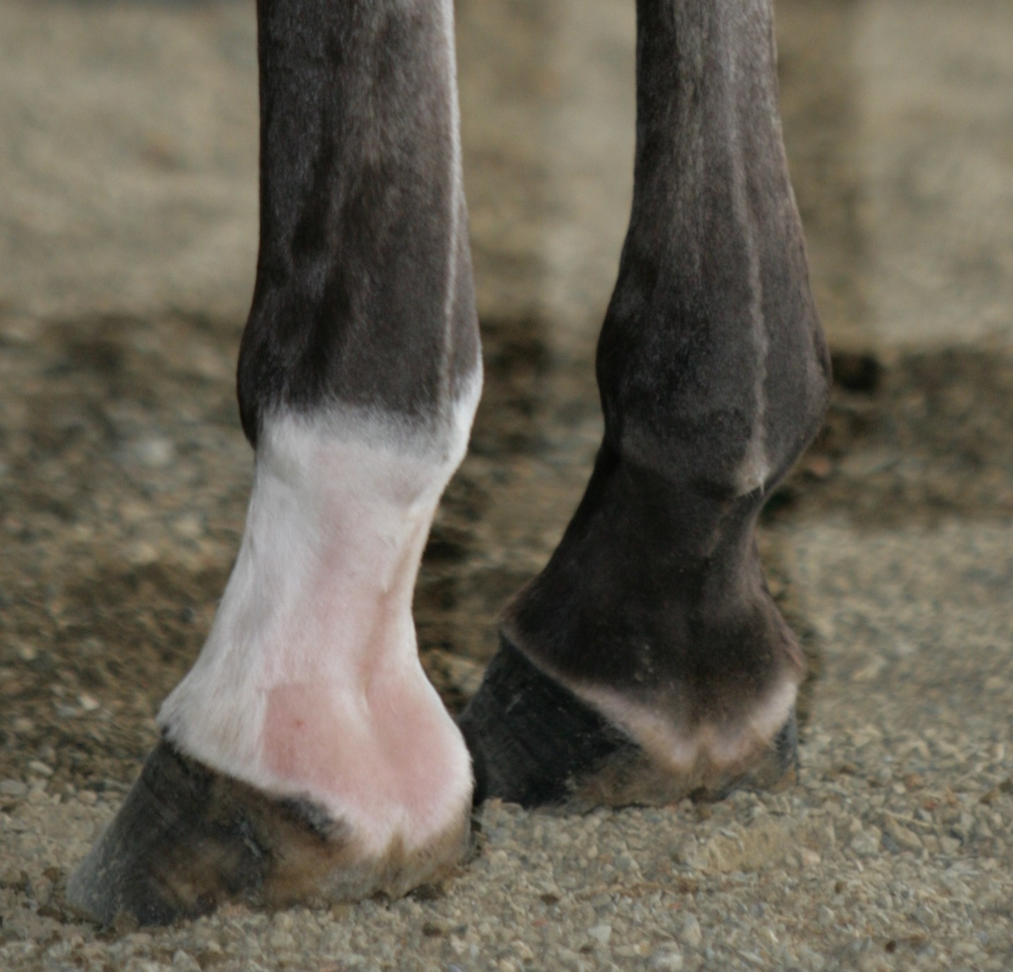 Shaved pasterns on the fore legs of a domestic horse